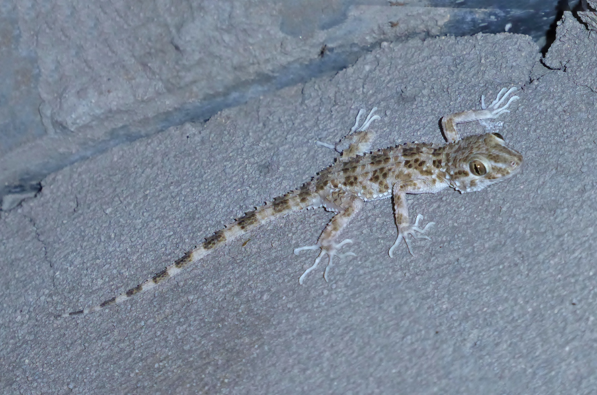 Tenuidactylus caspius from Georgia